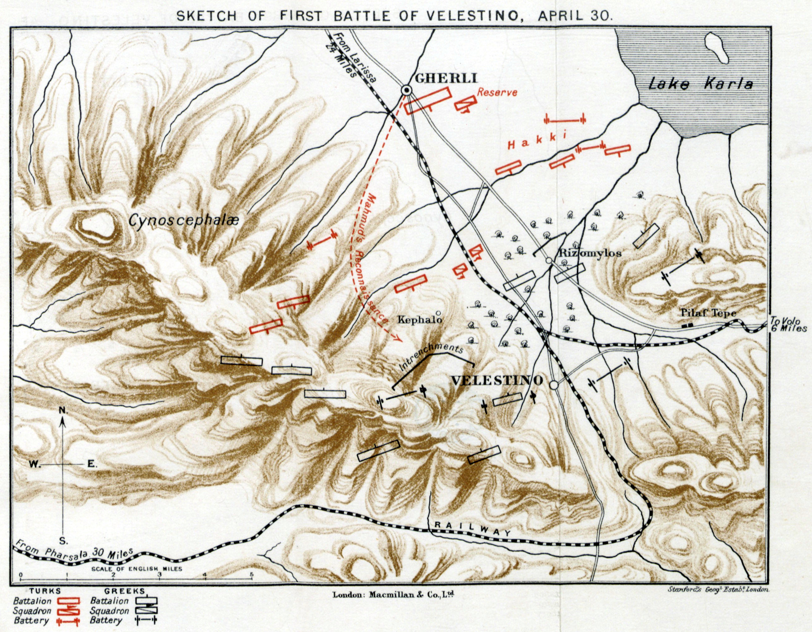 Sketch of First Battle of Velestino, April 30